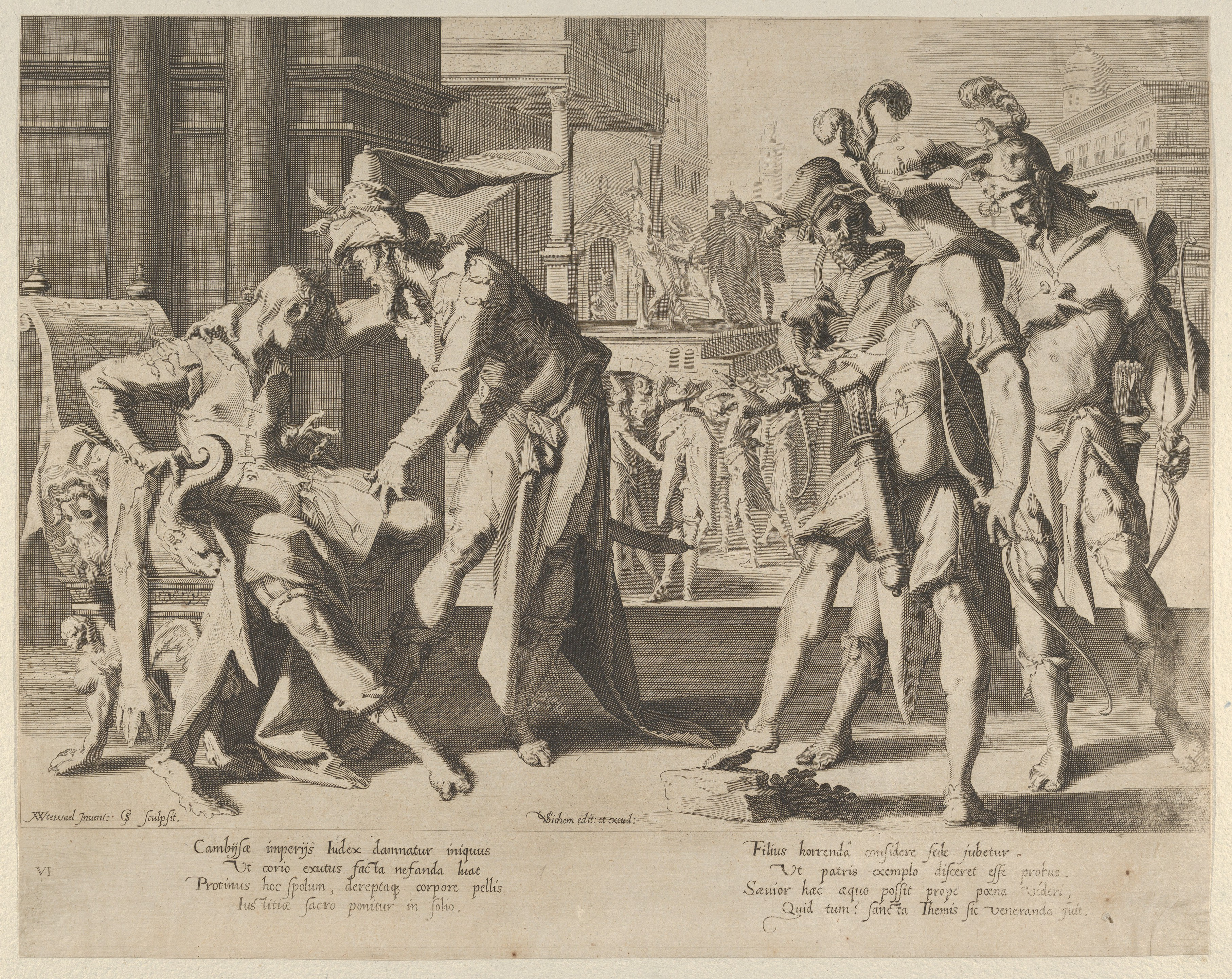 Prints